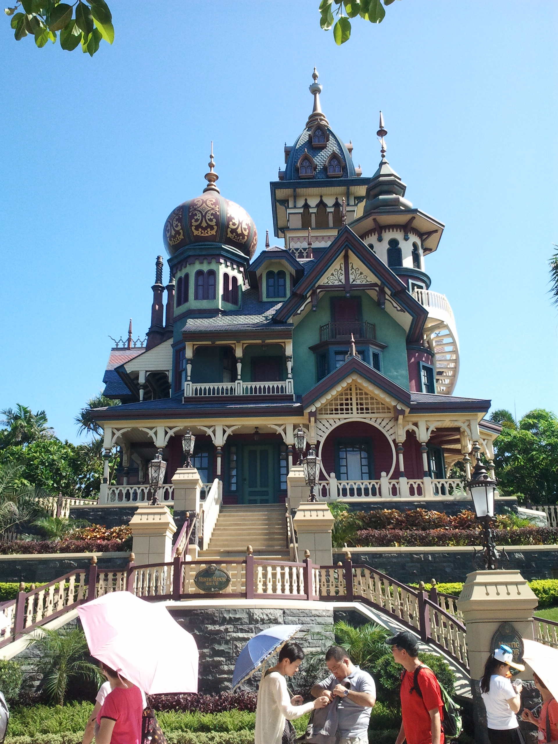 Mystic Manor is the main attraction of Mystic Point, Hong Kong Disneyland.